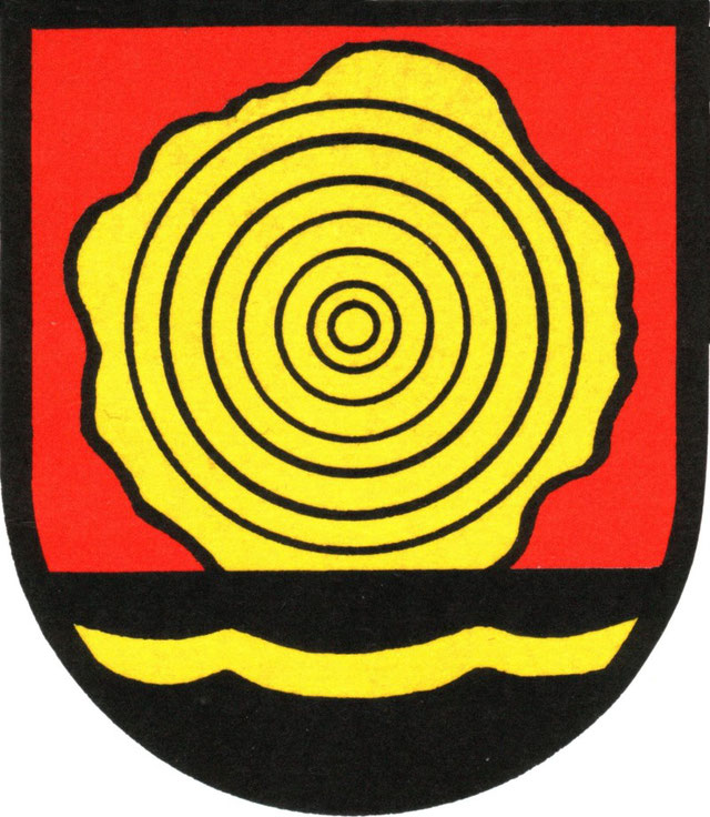 Coat of Arms of Horsten (Friedeburg)